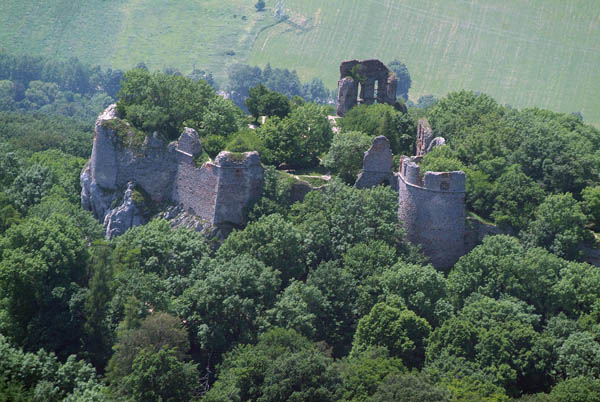 Pajštún Castle, Slovakia, aerial photography